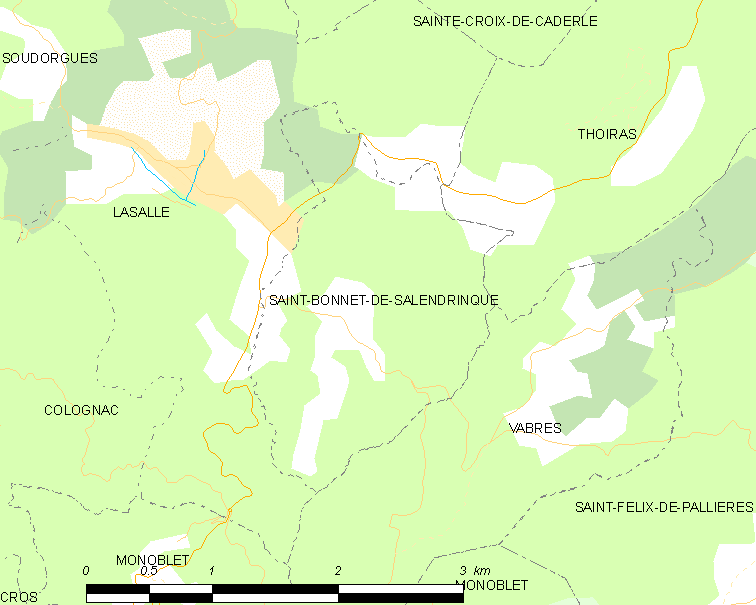 Map commune FR insee code 30236.png - Saint-Bonnet-de-Salendrinque